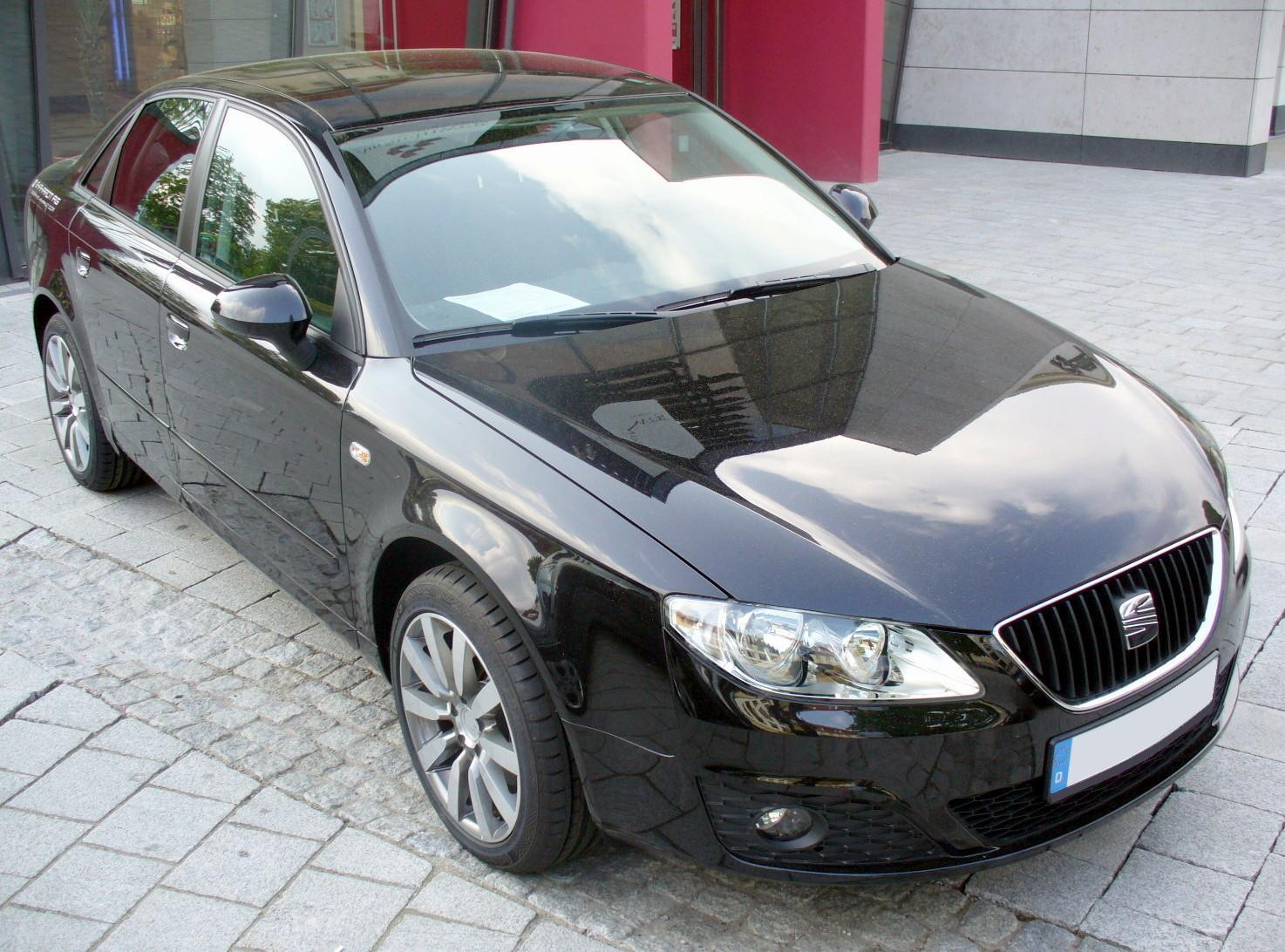 SEAT Exeo